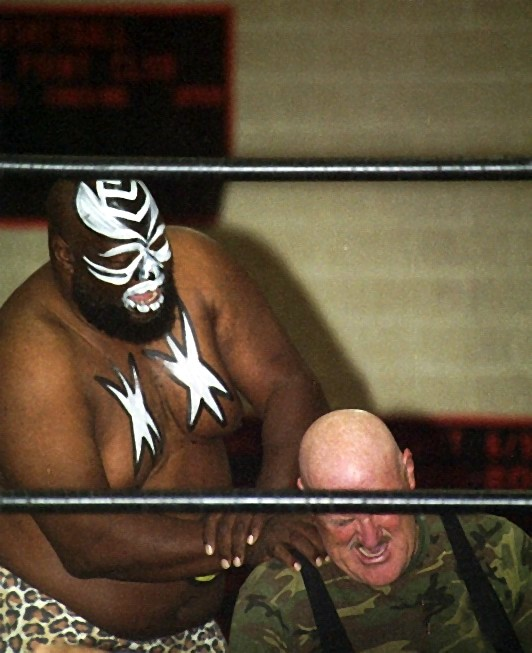 Wrestling legend Kamala takes on Sgt. Slaughter on 3/28/09 from Franklin PA